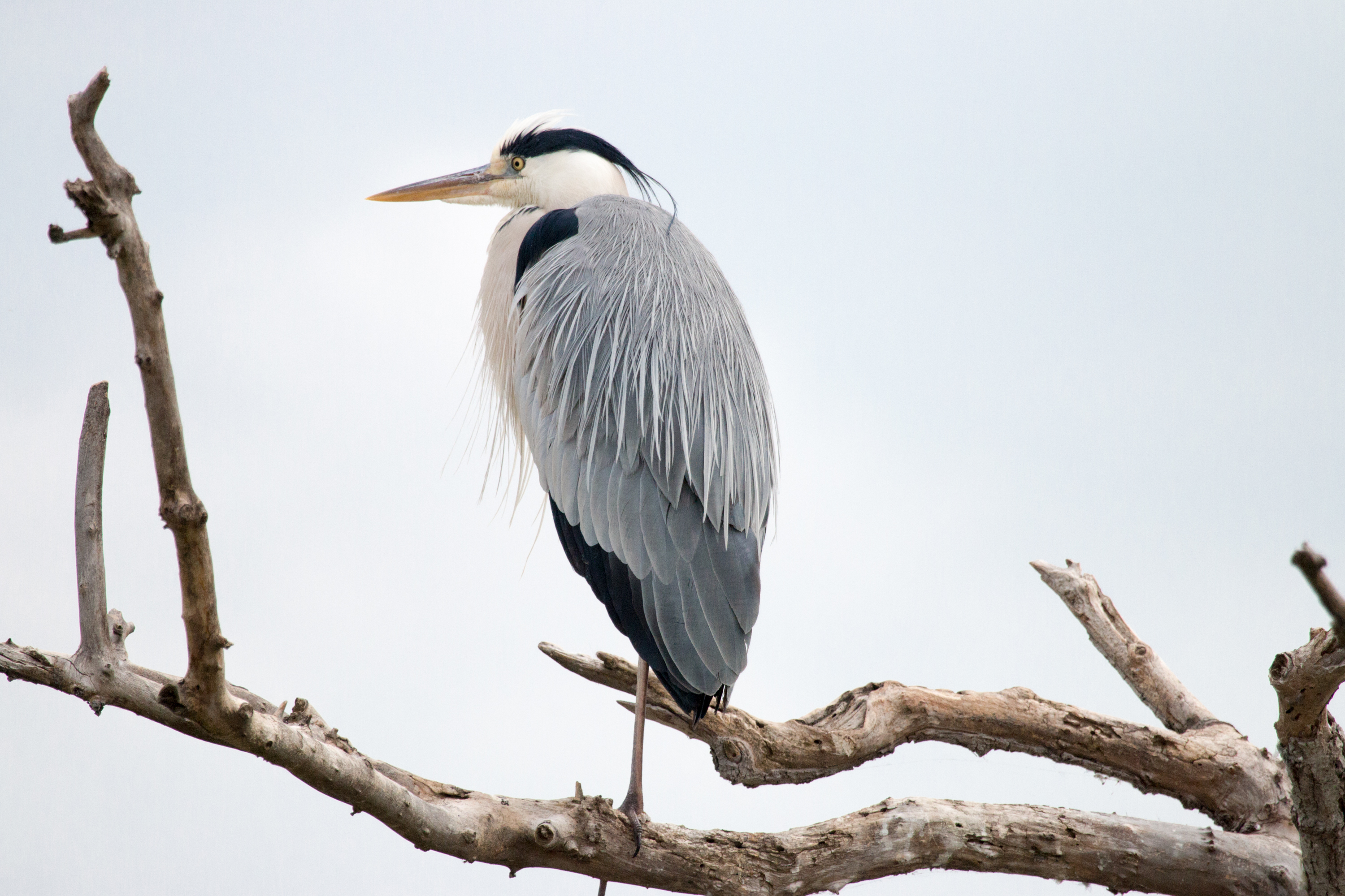 Natural life in Kekrini lake, Serres, Greece This is a photography of Natura 2000 protected area with ID GR1260008